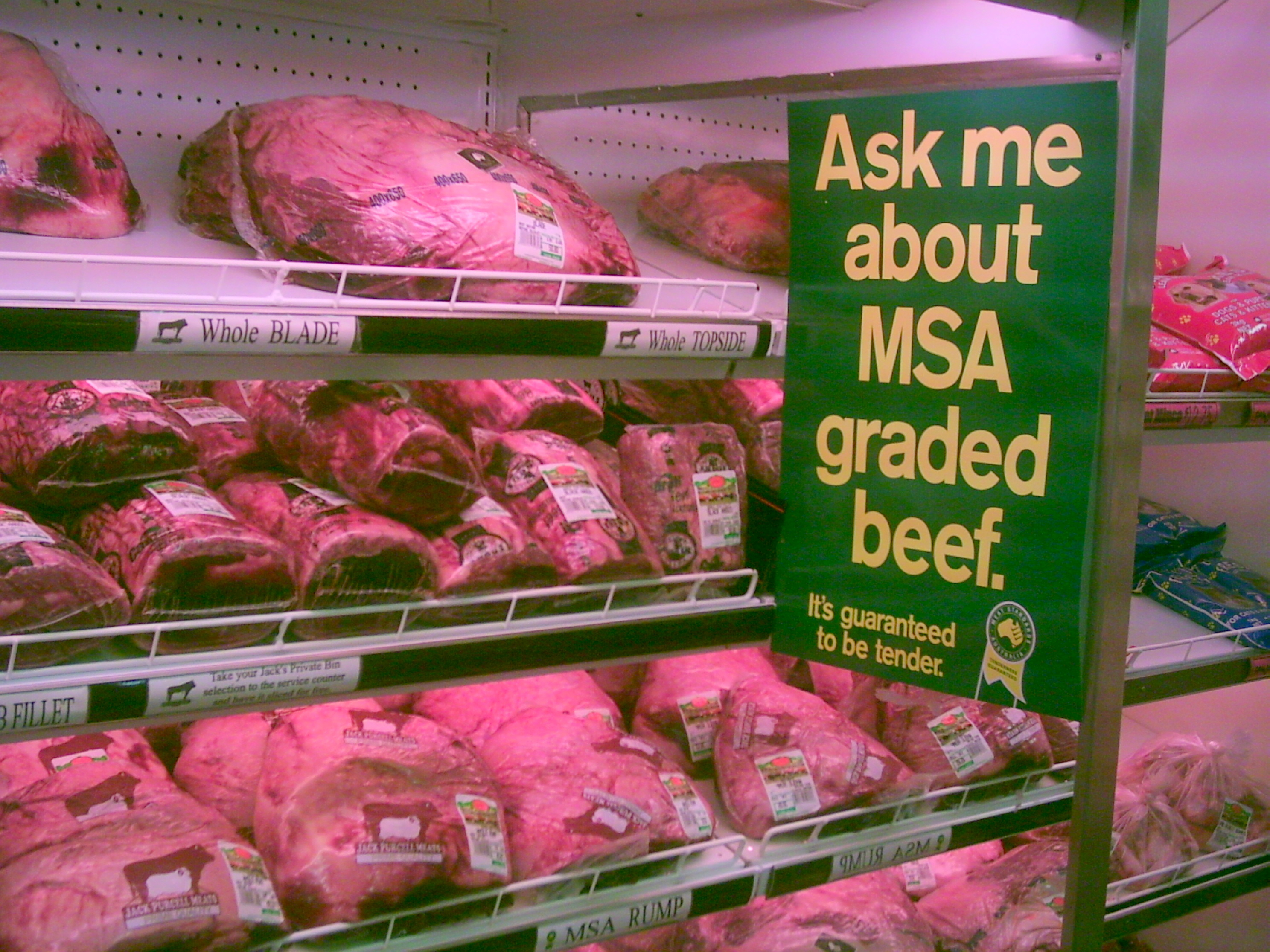 The Expensive High Quality Chunks of Beef - Jack Purcell Meats, 46 Pritchard Rd, Virginia, Queensland, Australia 070309-6